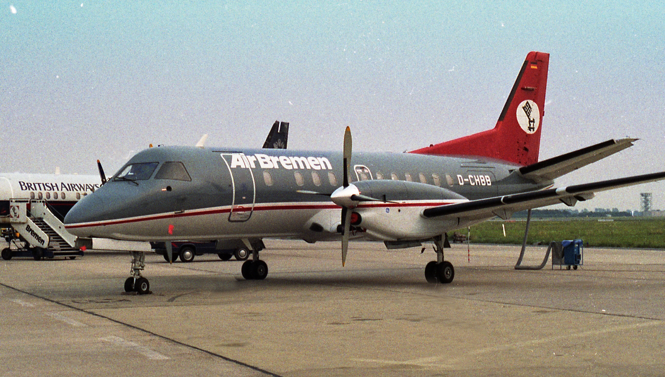 Air Bremen Saab 340 at Bramen Airport